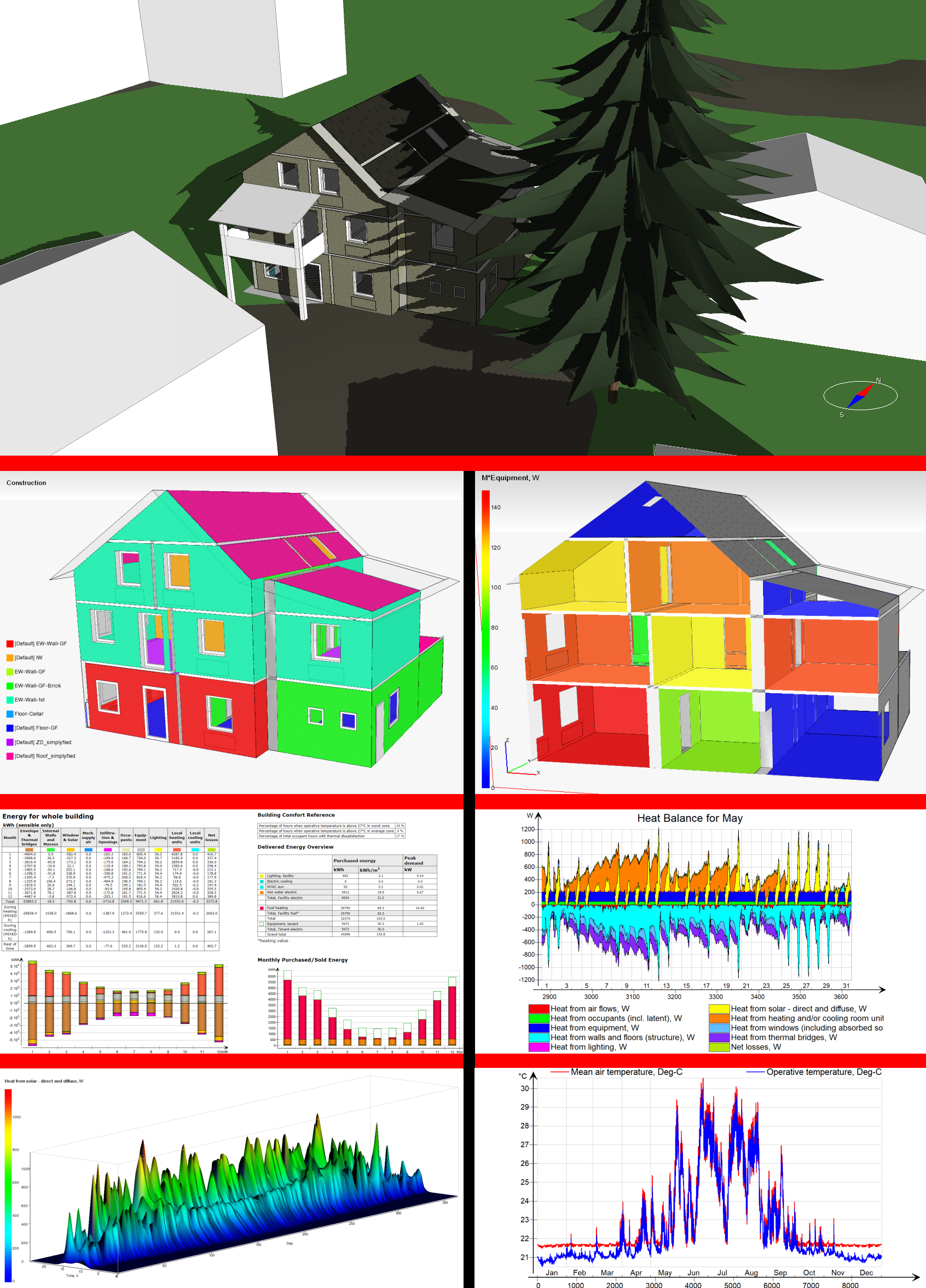 Concept of building simulation model with input and output